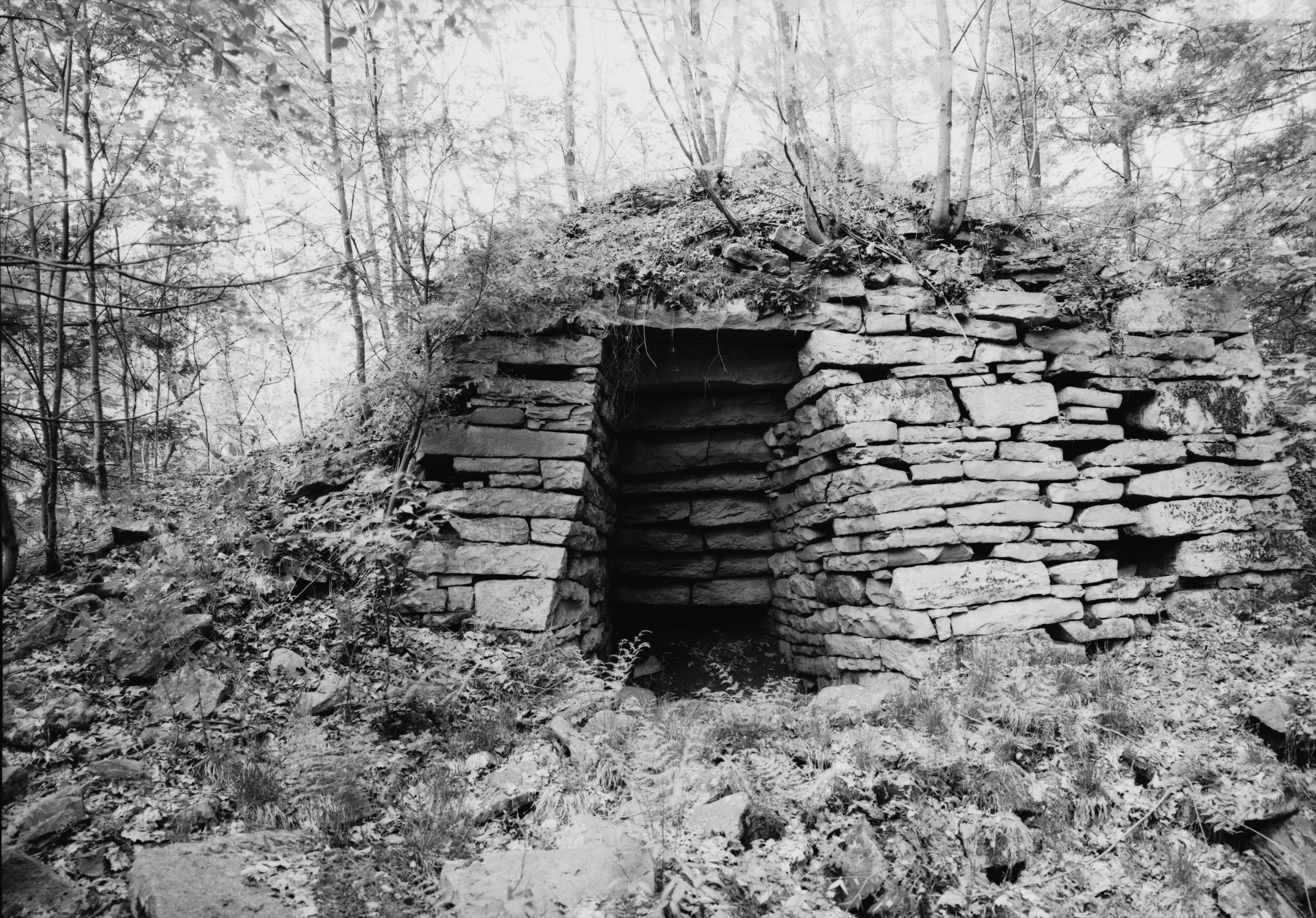 Front of Shade Furnace, located along Dark Shade in Shade Township, Somerset County, Pennsylvania, United States. Operated from 1807 to 1858, it was the first furnace in Somerset County. The furnace and the ruins of several associated structures compose the Shade Furnace Archaeological District, a historic district that is listed on the National Register of Historic Places.